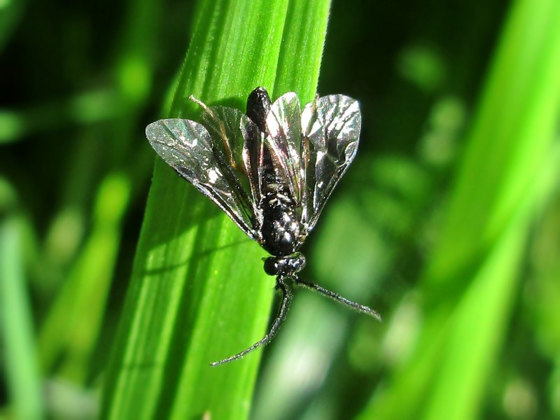 Cladius spec. (Tenthredinidae sp.) male, Valkenburg, the Netherlands